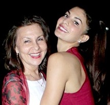 Jacqueline with her mother Kim